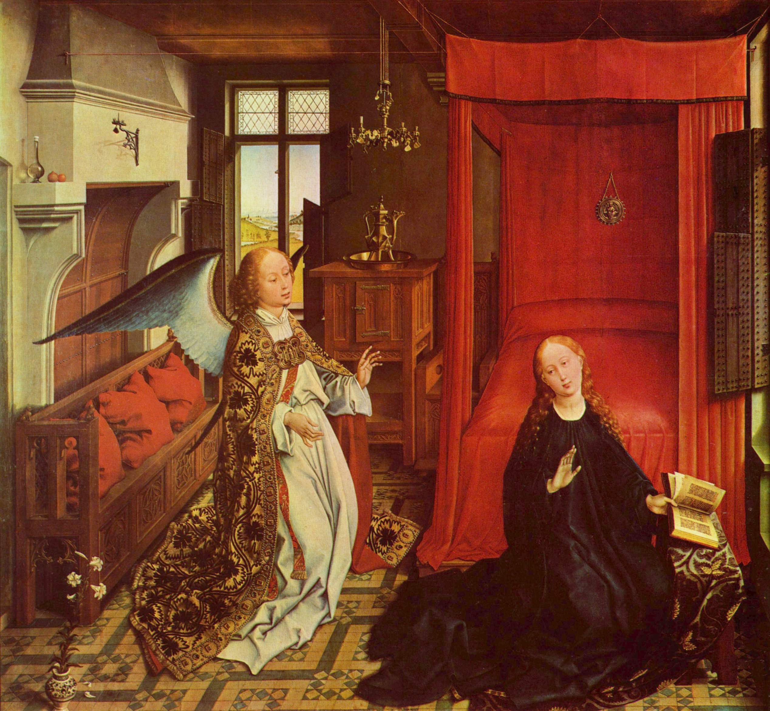 Central panel of the Annunciation Triptych.